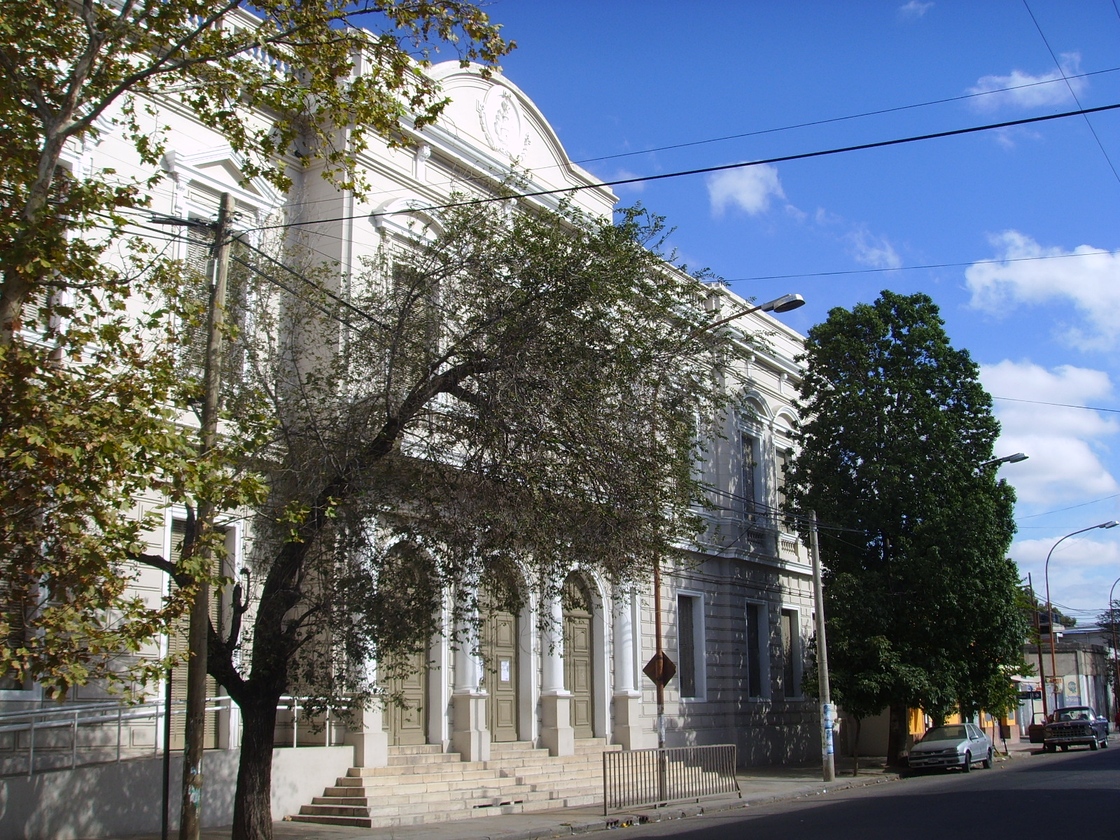 School in Agustín Garzón street, Córdoba, Argentina